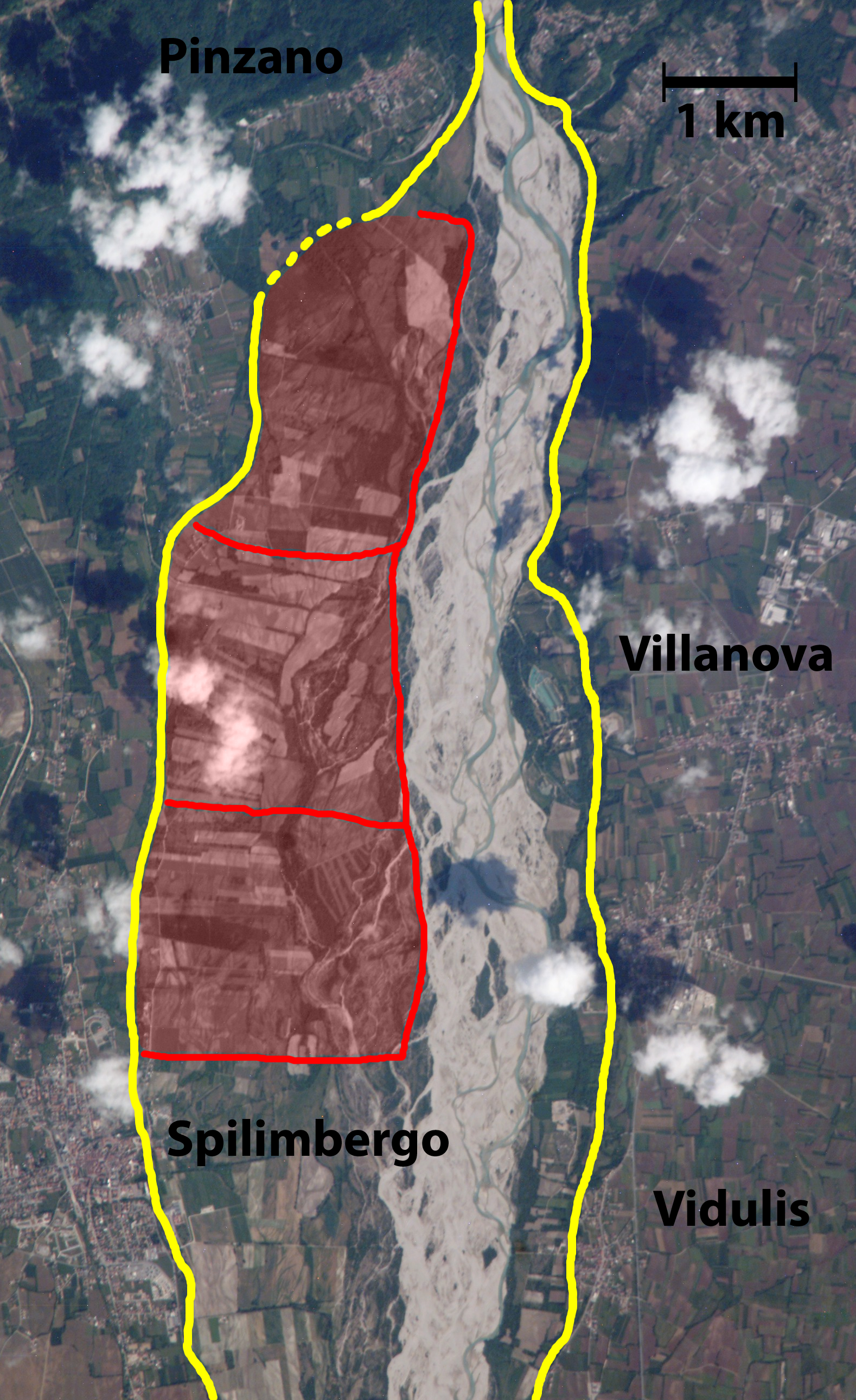 Planned detention basins on Tagliamento river between Pinzano and Dignano, northeast Italy. Yellow lines = natural levees. Red lines = perimeters of the basins.